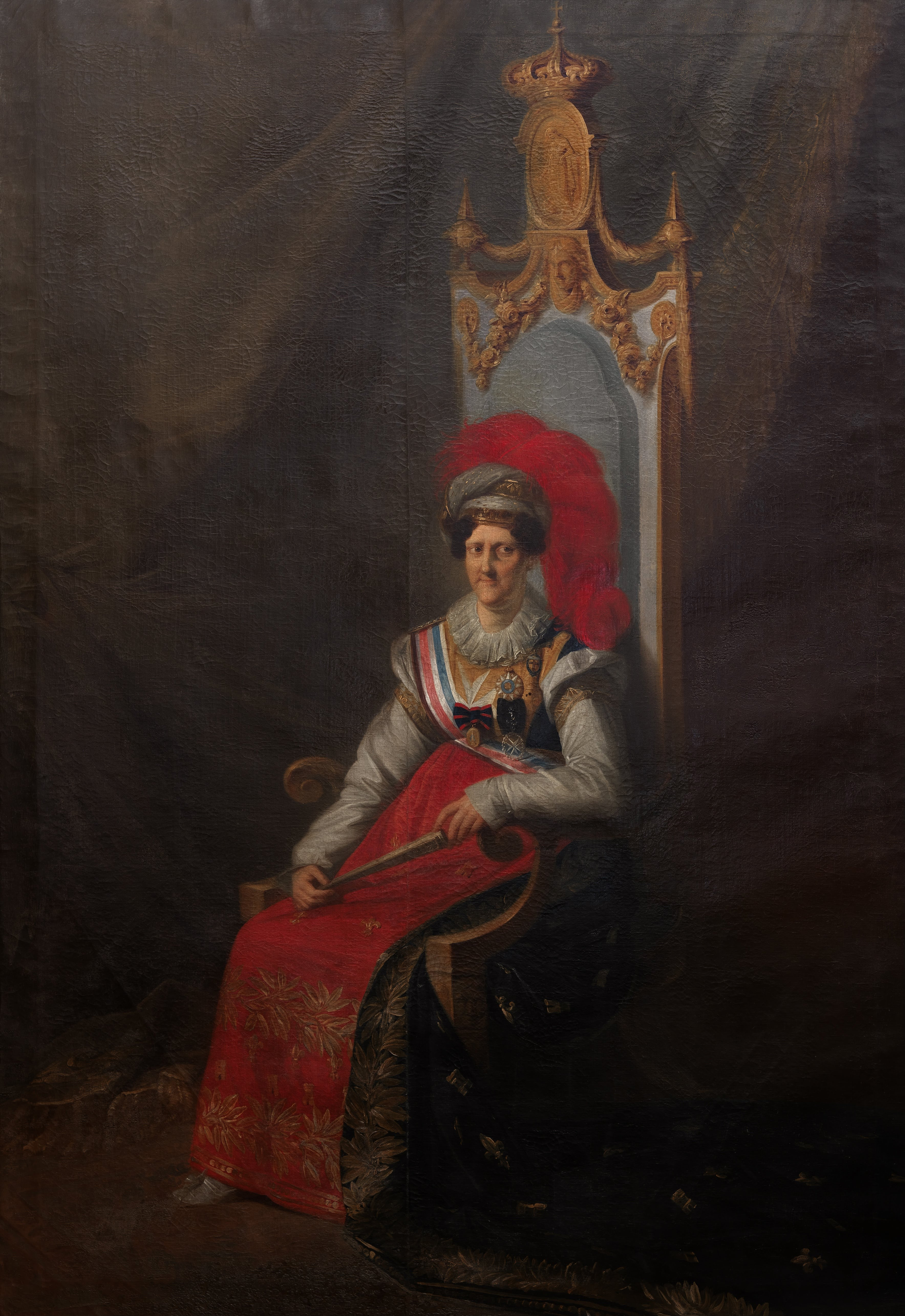 Carlota Joaquina (1775-1830), Queen of Portugal. Via Google Cultural Institute.